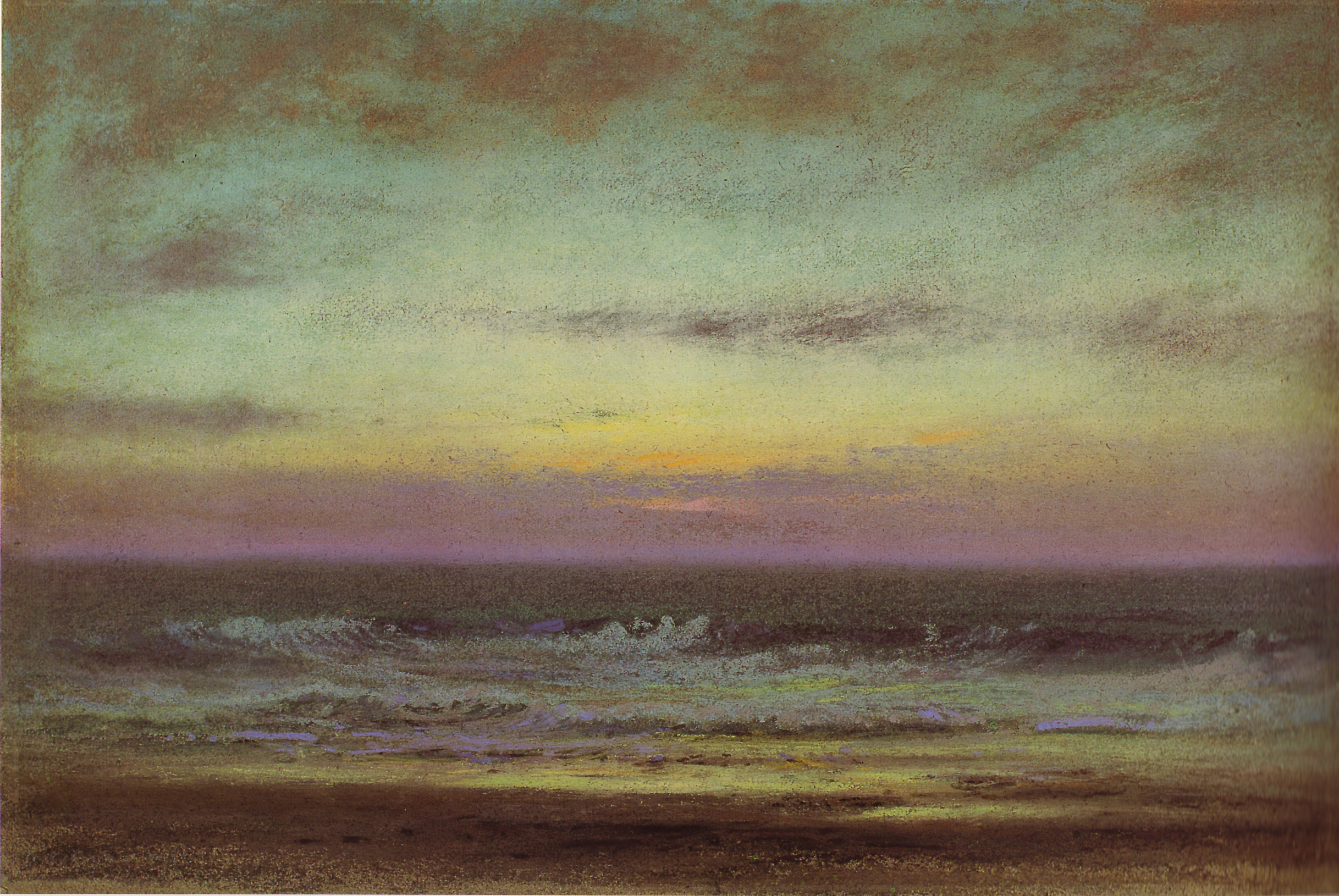 Painting After Sunset: Looking East by Dwight William Tryon